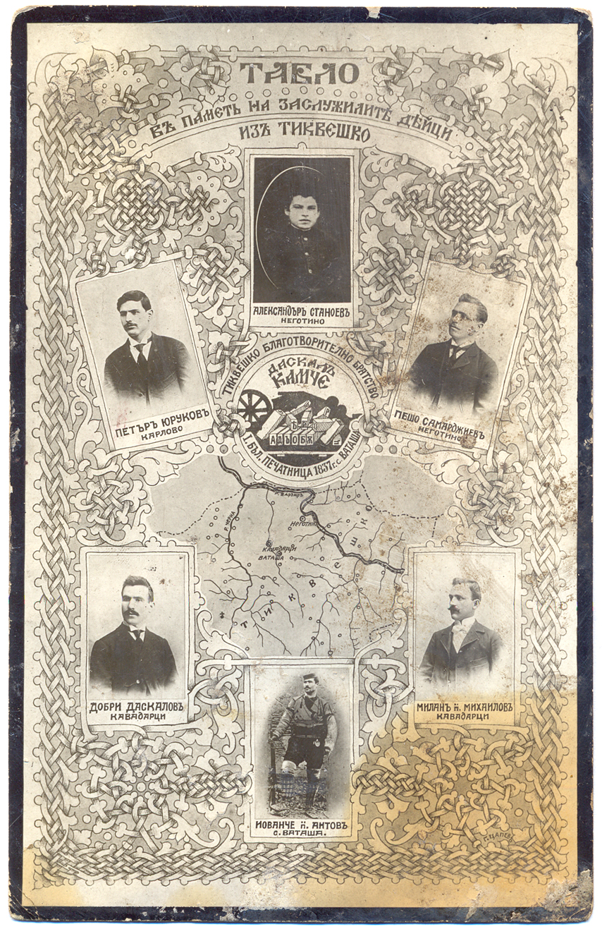 Bulgarian revolutionaries from IMARO.